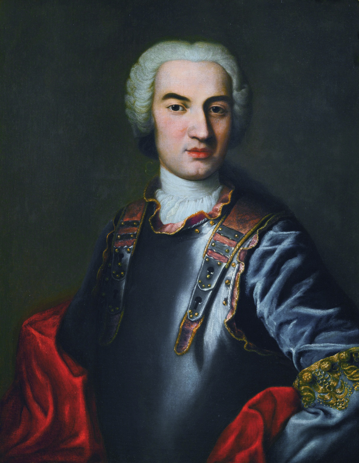 Portrait of Charles Christian Erdmann, Duke of Württemberg-Oels (1716-1792)